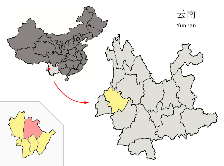 Location of Longyang District (pink) and Baoshan Prefecture (yellow) within Yunnan province of China Map drawn in september 2007 using various sources, mainly : Yunnan province administrative regions GIS data: 1:1M, County level, 1990 Yunnan Counties map from